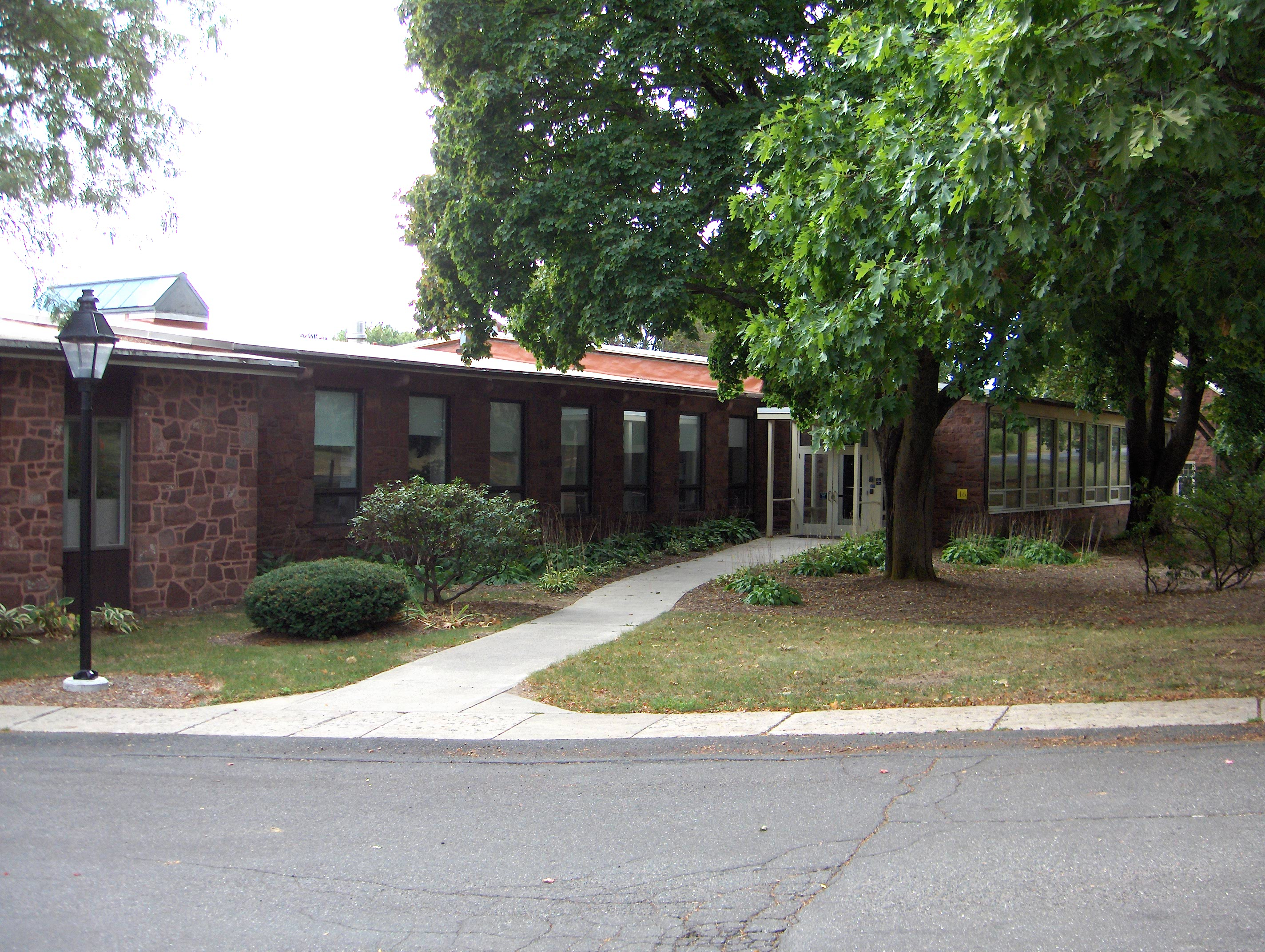 Ensign Bickford headquarters building